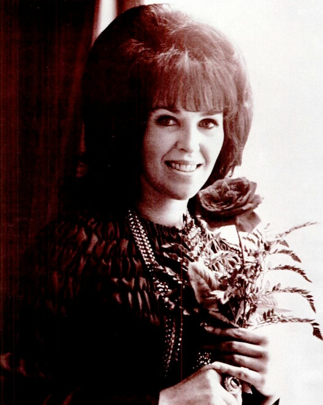 Trade ad for Wanda Jackson's single "A Woman Lives for Love".The image has been cropped from not relevant text. The original can be viewed at the source below.